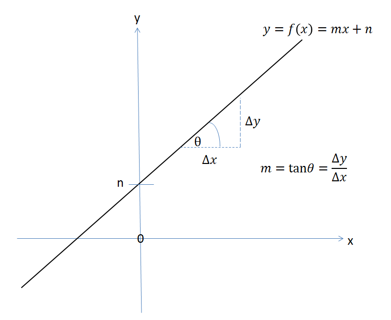 Linear function y = f ( x ) = m x + n {\displaystyle y=f(x)=mx+n}